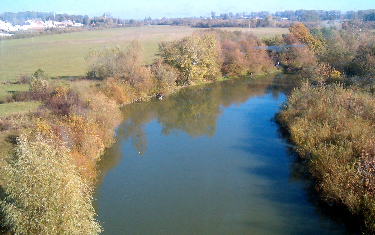 Horyn River in Oleksandriya, Rivne oblast, Ukraine